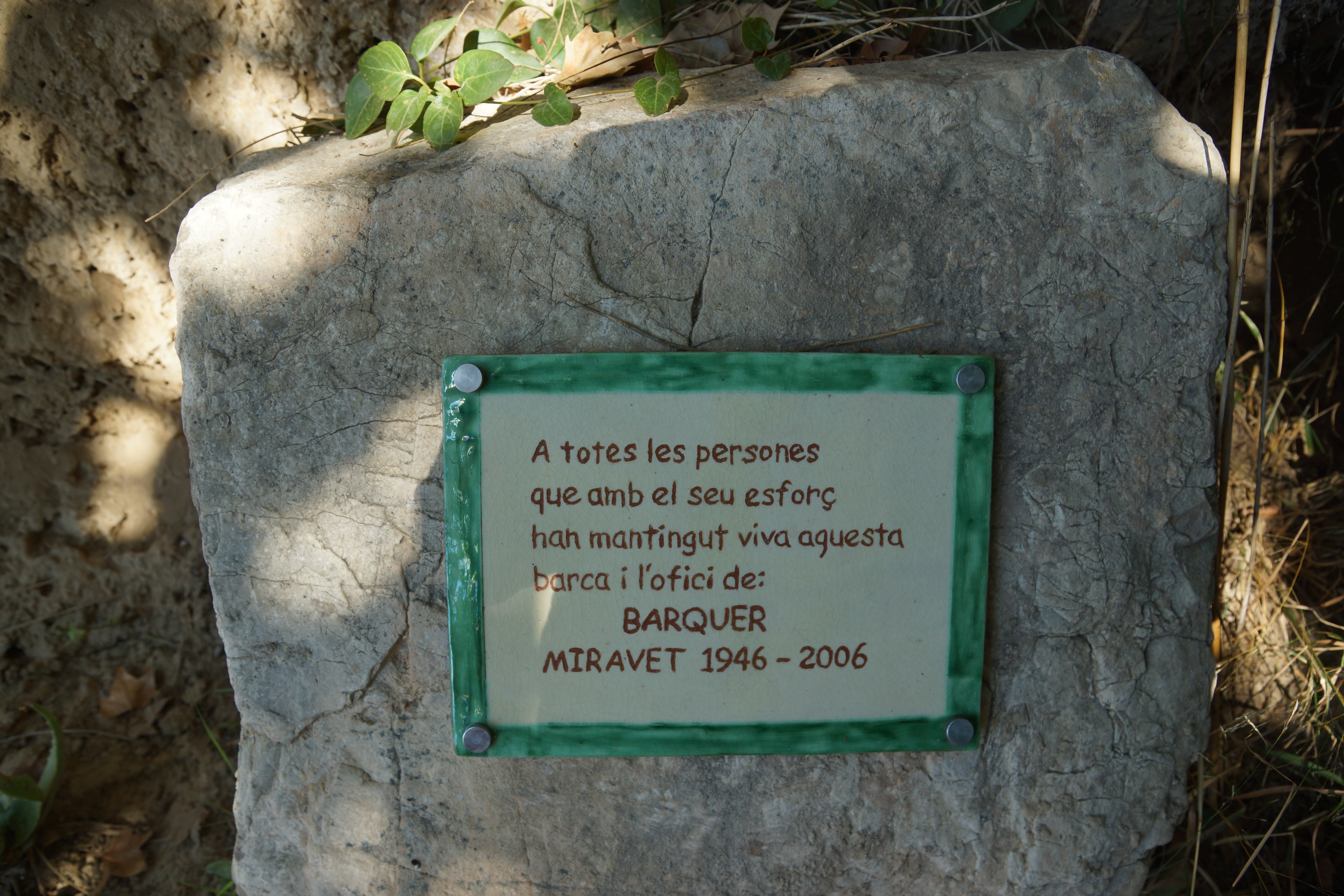 Miravet, Catalonia: To remember all the people that kept the Miravet Ferry on the river Ebre alive